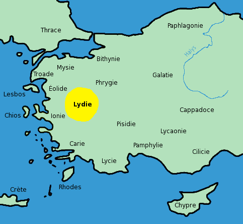 Map of Lydia in French. Adaptated from Image:Lydia original area of lydia.jpg.